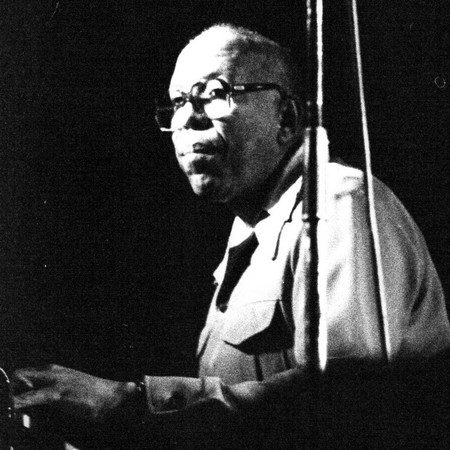 Pianist and singer Billy "The Kid" Emerson in Belgium